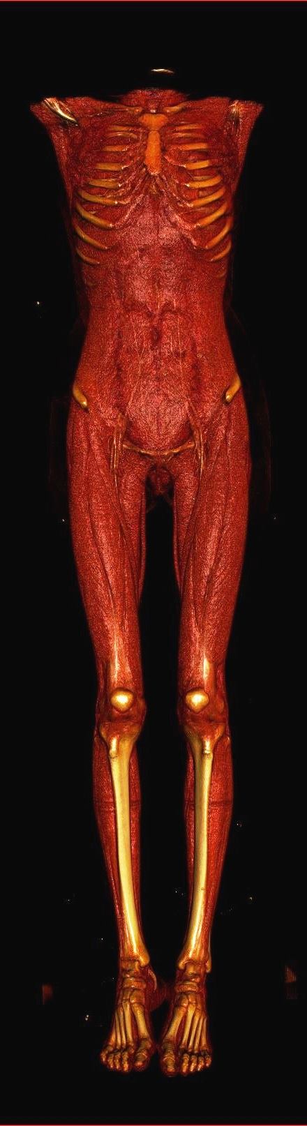 Muscular view of the three dimensional body